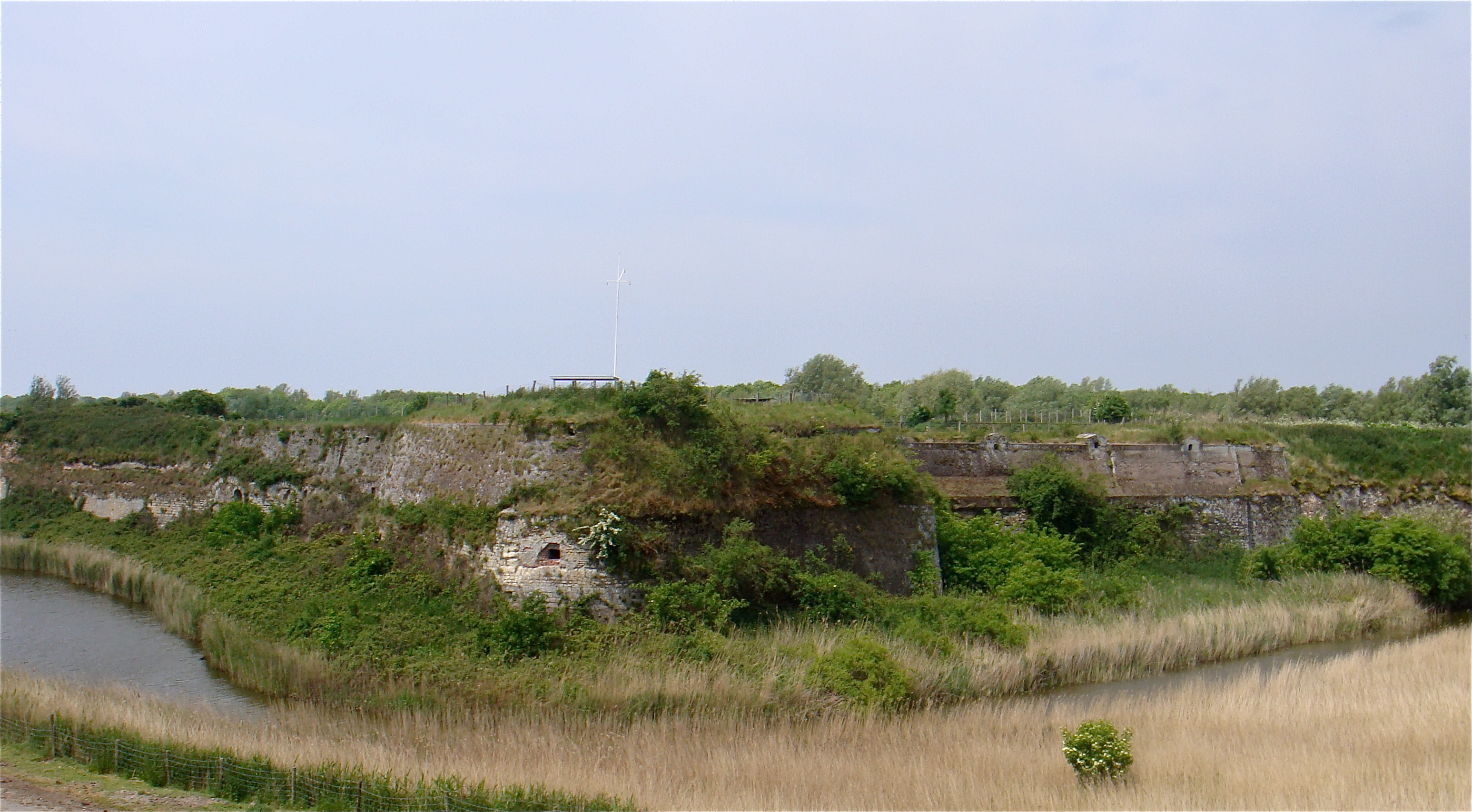 View of Fort Rammekens, Netherlands